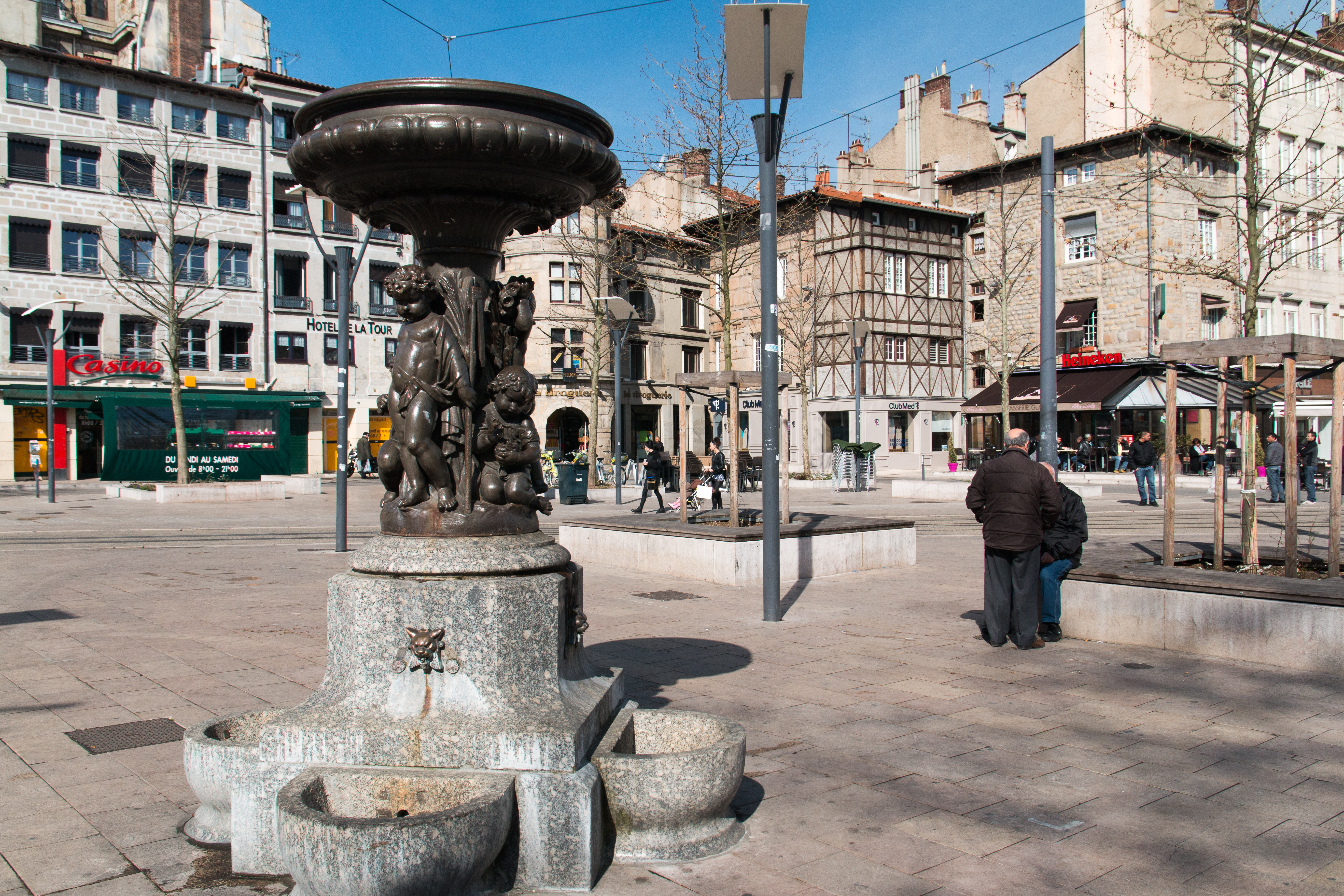 Fontaine of the seasons, Square of the people: Spring and summer ... in spring!